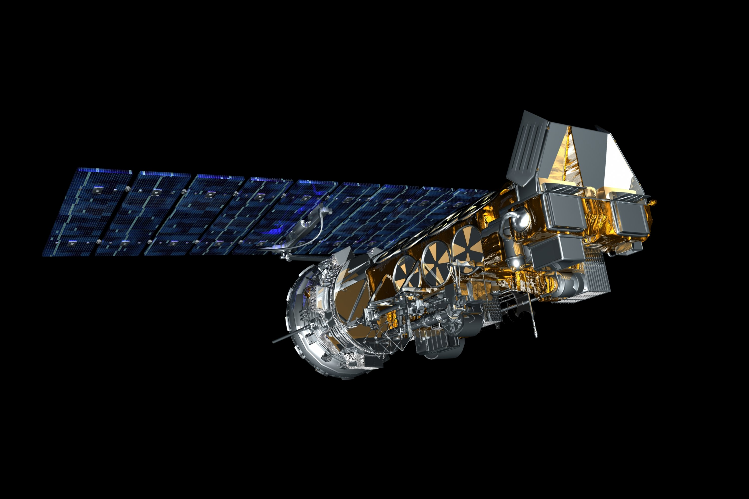 Source does not identify this, but it appears to bean artist's conception of a TIROS N satellite, either either NOAA-18 or NOAA-19 (which are essentially identical).